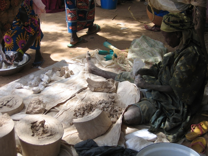 Woman selling salt in a market in Tahoua, Niger, Africa.